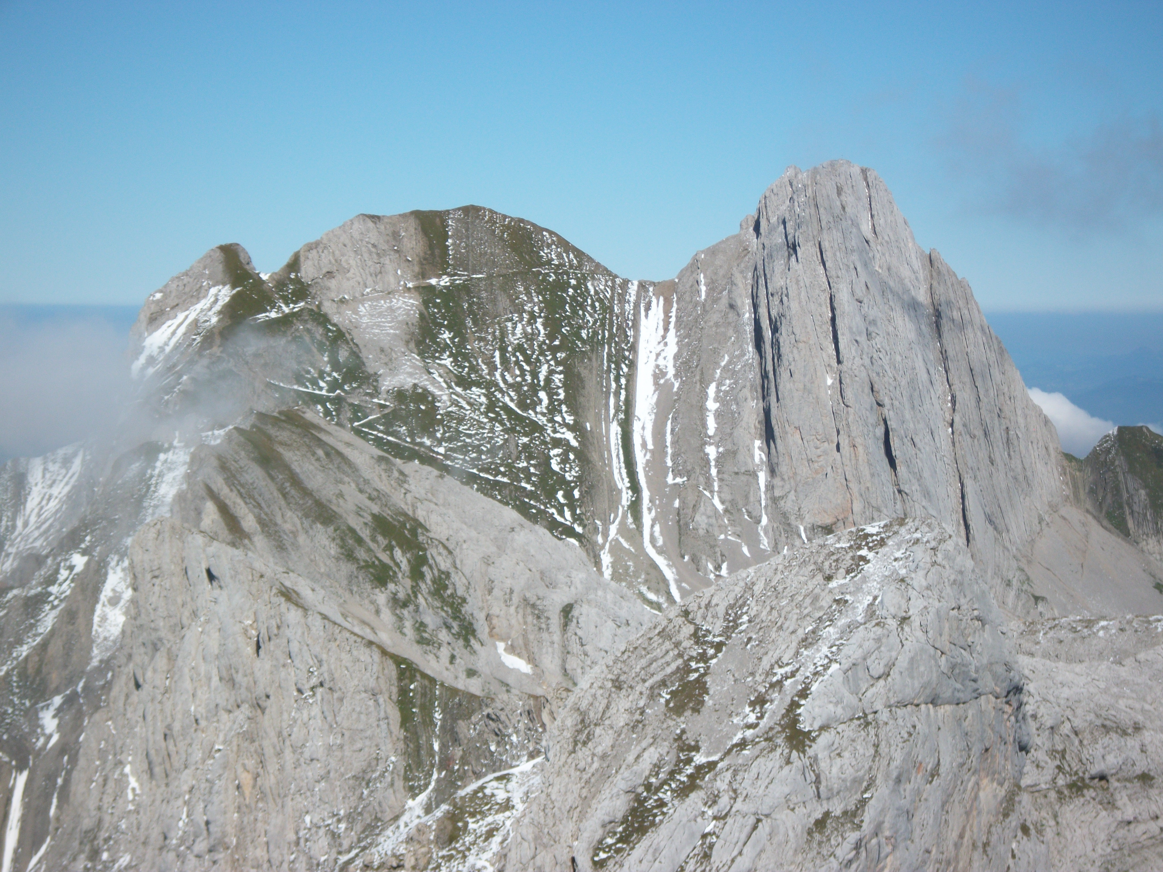 Altmann and Altmann-Sadle